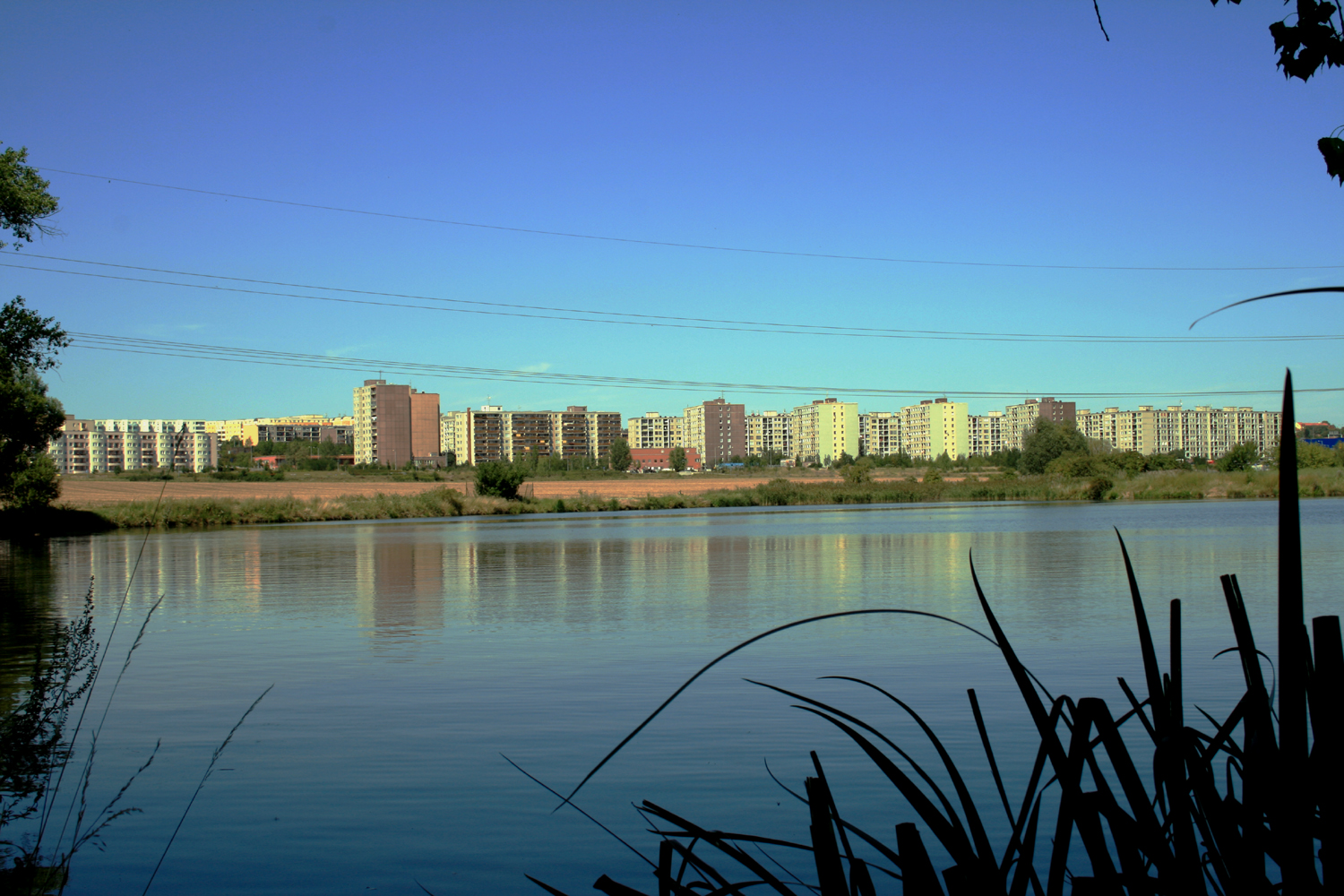 Pond Martiňák near Černý Most, Prague, Czech Republic